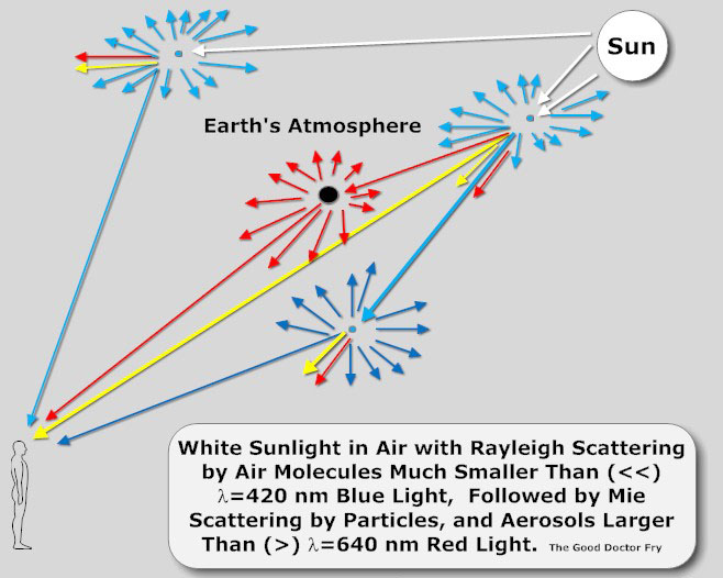 Diagram of scattering of sunlight to make a yellow/red appearing sun and blue sky